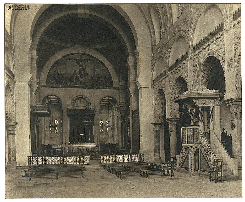 Algeria. Algiers. Interior of Cathedral